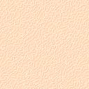 Created by PuckSmith with LView Pro 1.D2 and ACDSee 3.1 on January 5, 2006.